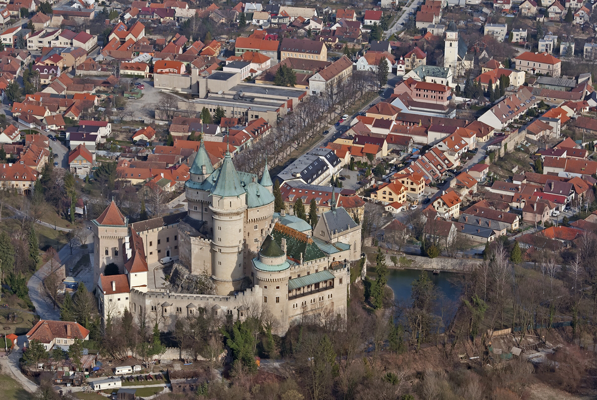 Slovakia Bojnice (The photo is made of a glider "Duo Discus xlt")